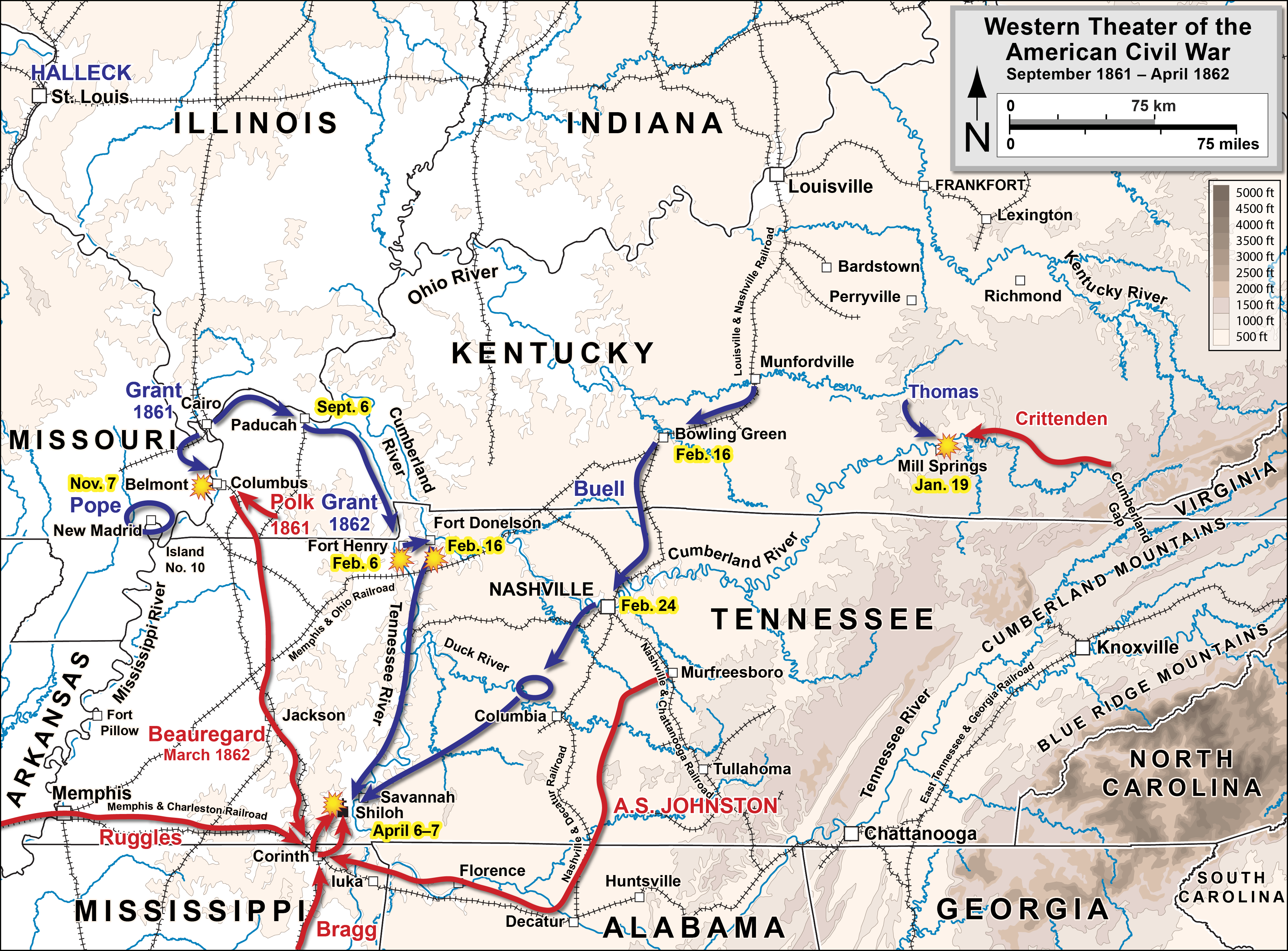 Map 2 of 5 of the Map of the Western theater of the American Civil War. Drawn by Hal Jespersen in Adobe Illustrator CS5. Graphic source file is available at